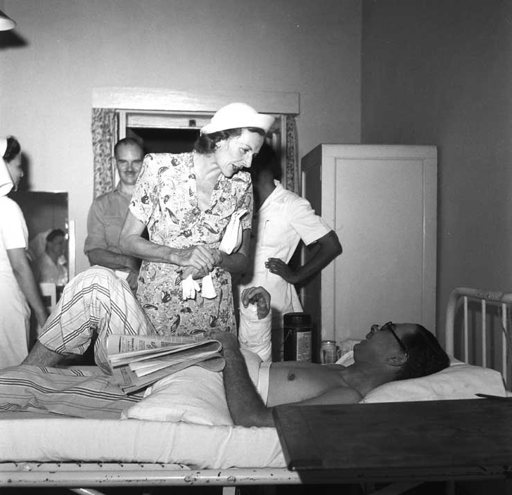 Lady Mountbatten at the Police Hospital, Delhi.